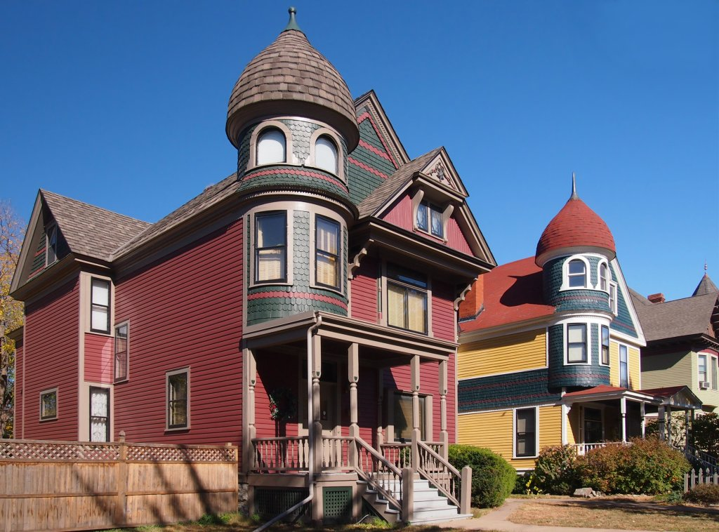 L.J. Gates House and A. Bettingen House (both built 1889), Woodland Park Historic District, St Paul, Minnesota, USA